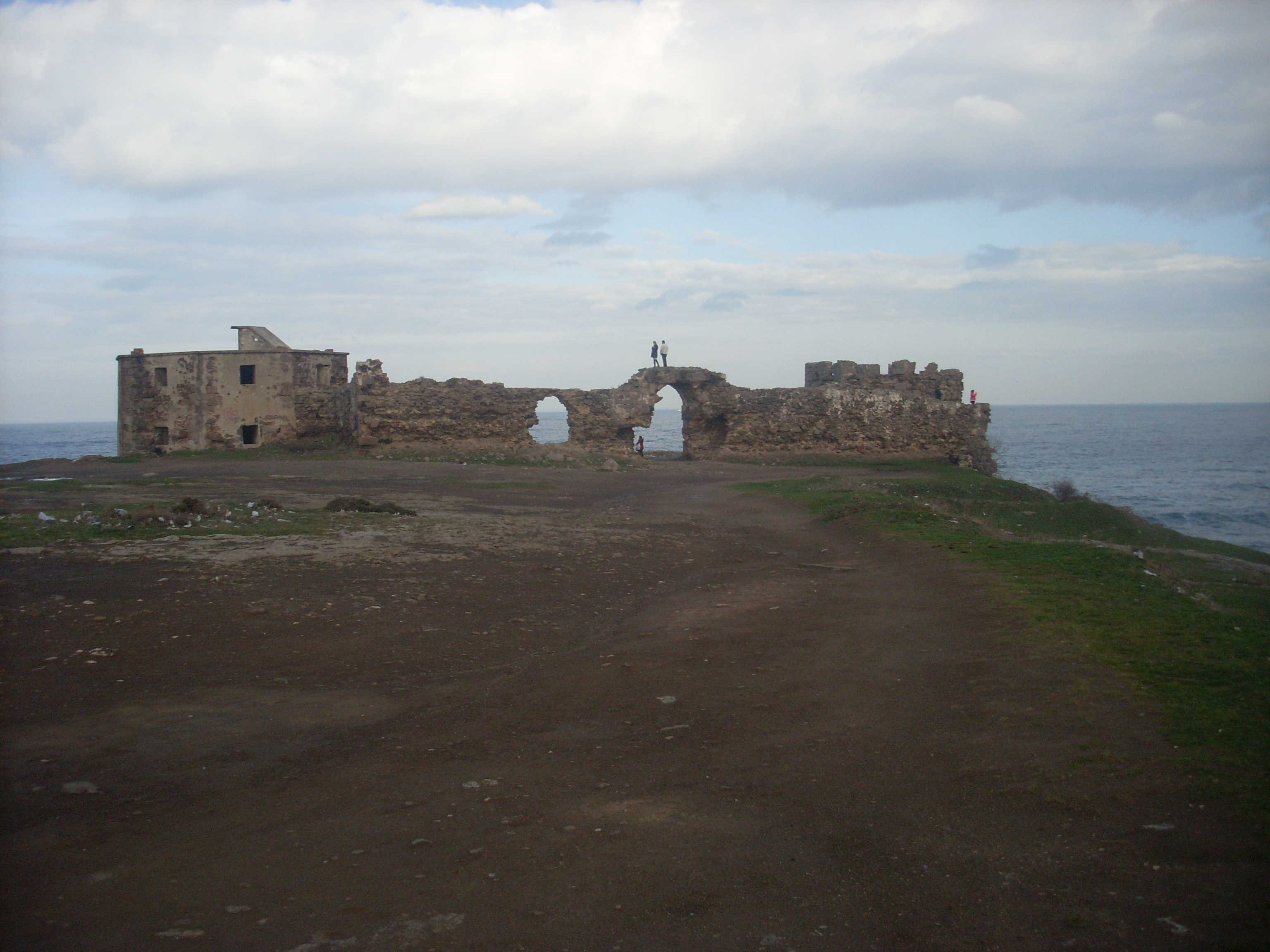 Rumeli Feneri Castle p1, Jan 2014